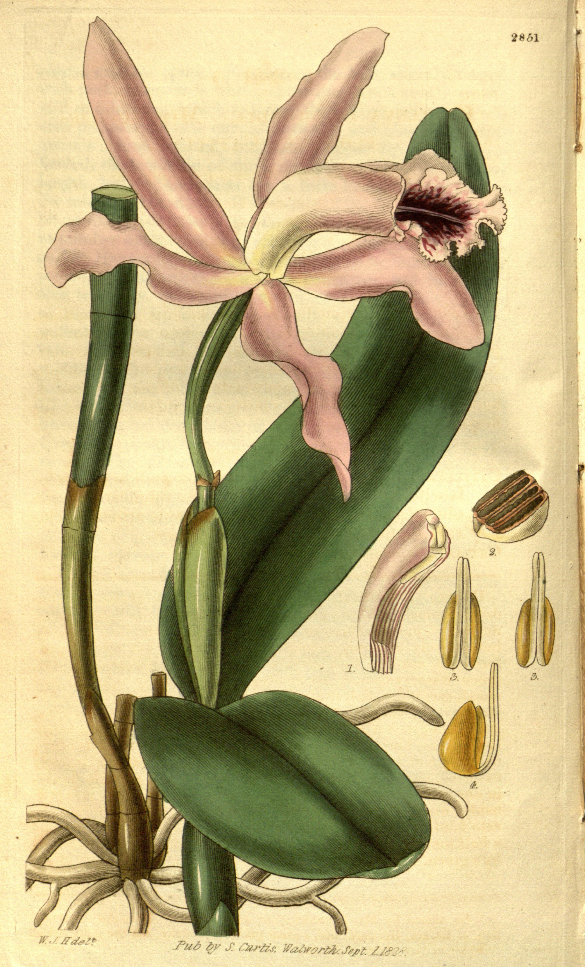 Illustration of Cattleya intermedia